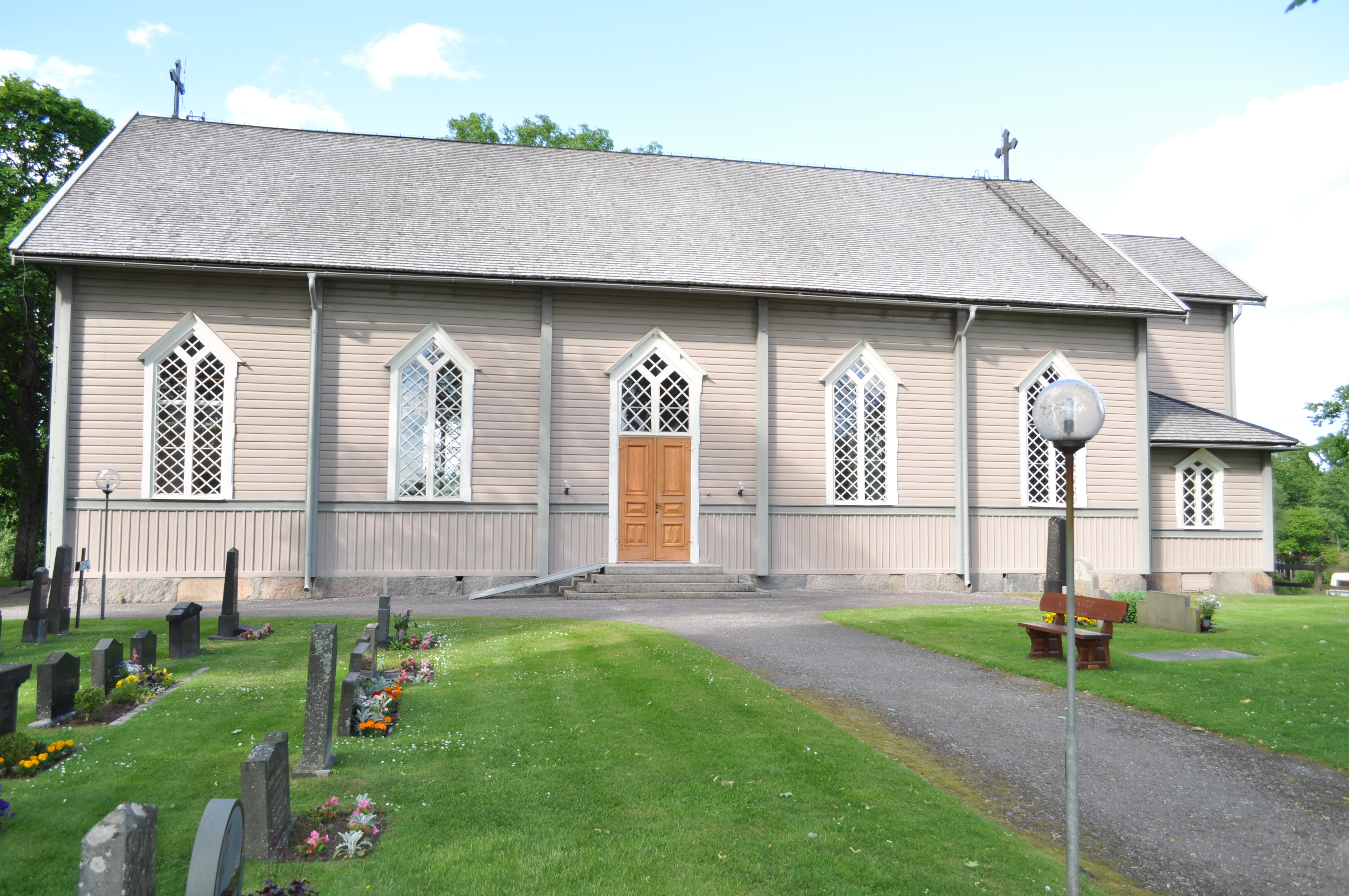 Oskars church - kyrka Alsjöholm